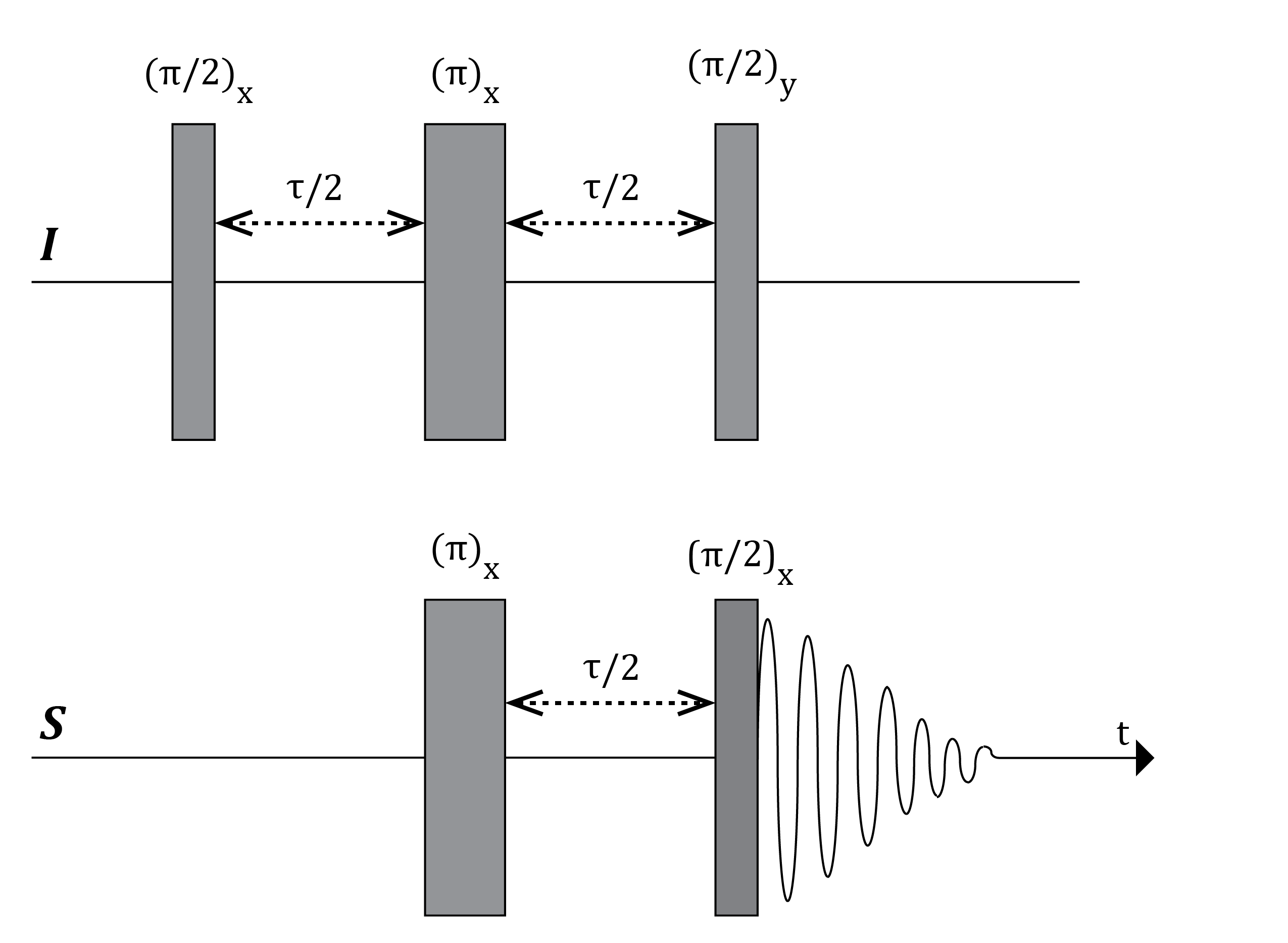 Graphical representation of the INEPT NMR pulse sequence. INEPT is utilized often to improve 15N resolution because it increases Boltzmann polarization and decreases T1 relaxation.